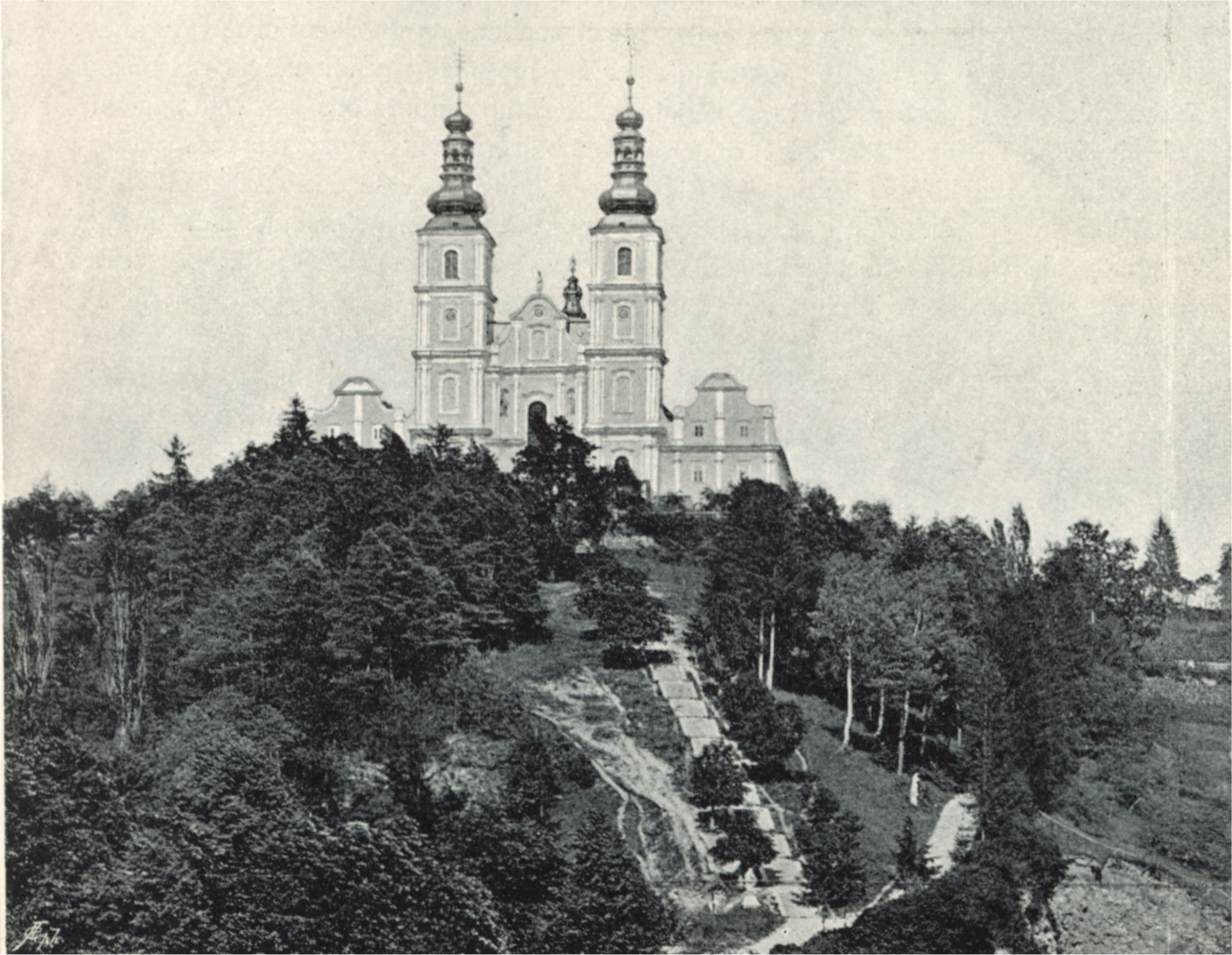 The baroque Mariatrost Basilica on top of the Purberg hill in Graz-Mariatrost